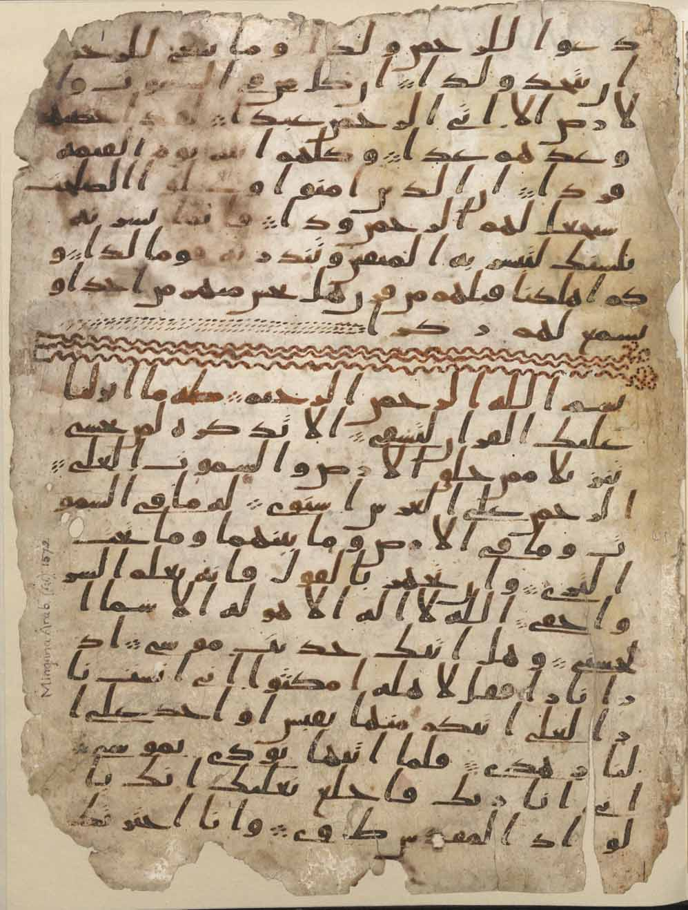 Part of the Birmingham Quran manuscript.